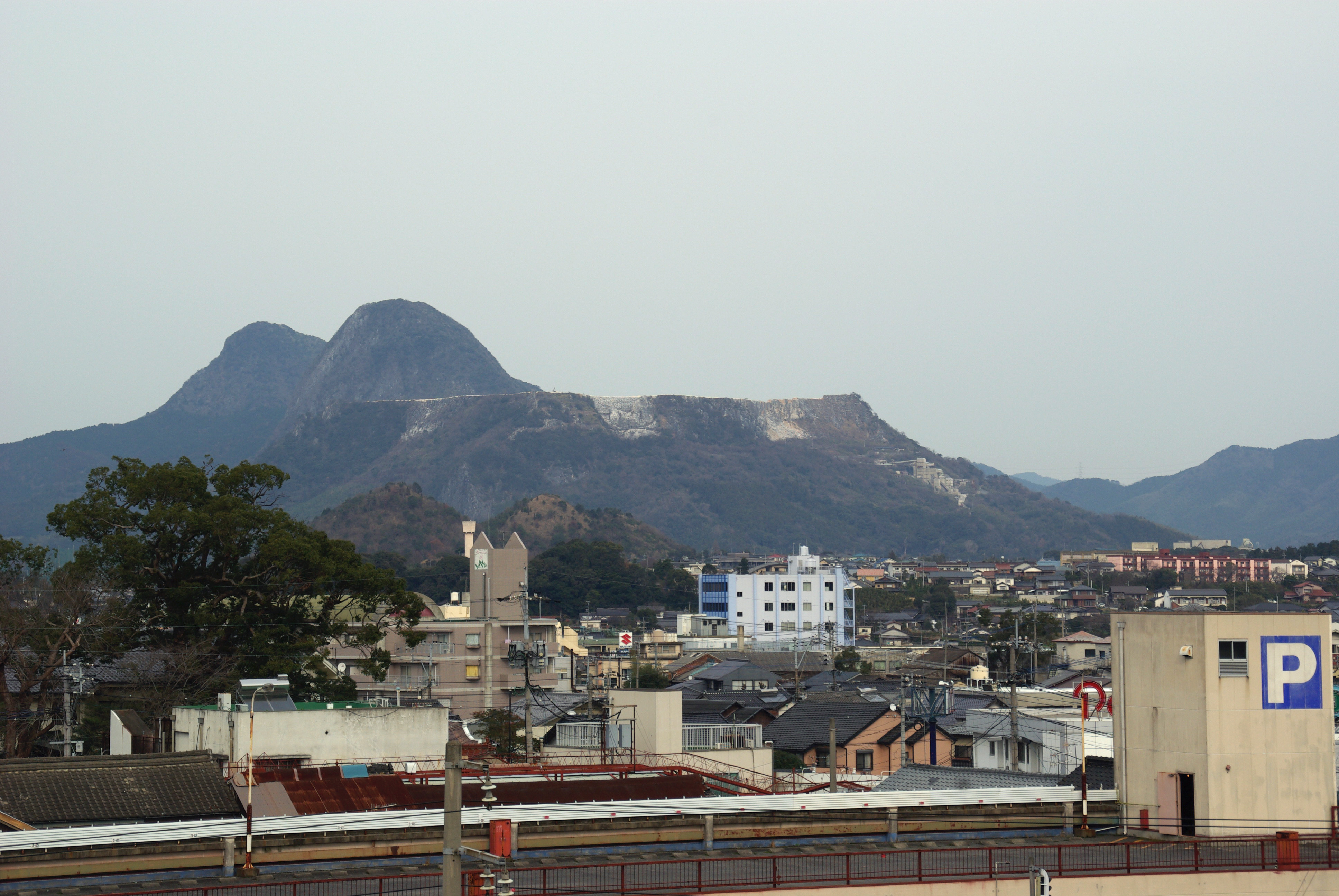 Mount Kawara as seemn fom the SW in Tagawa, Fukuoka Prefecture, Japan